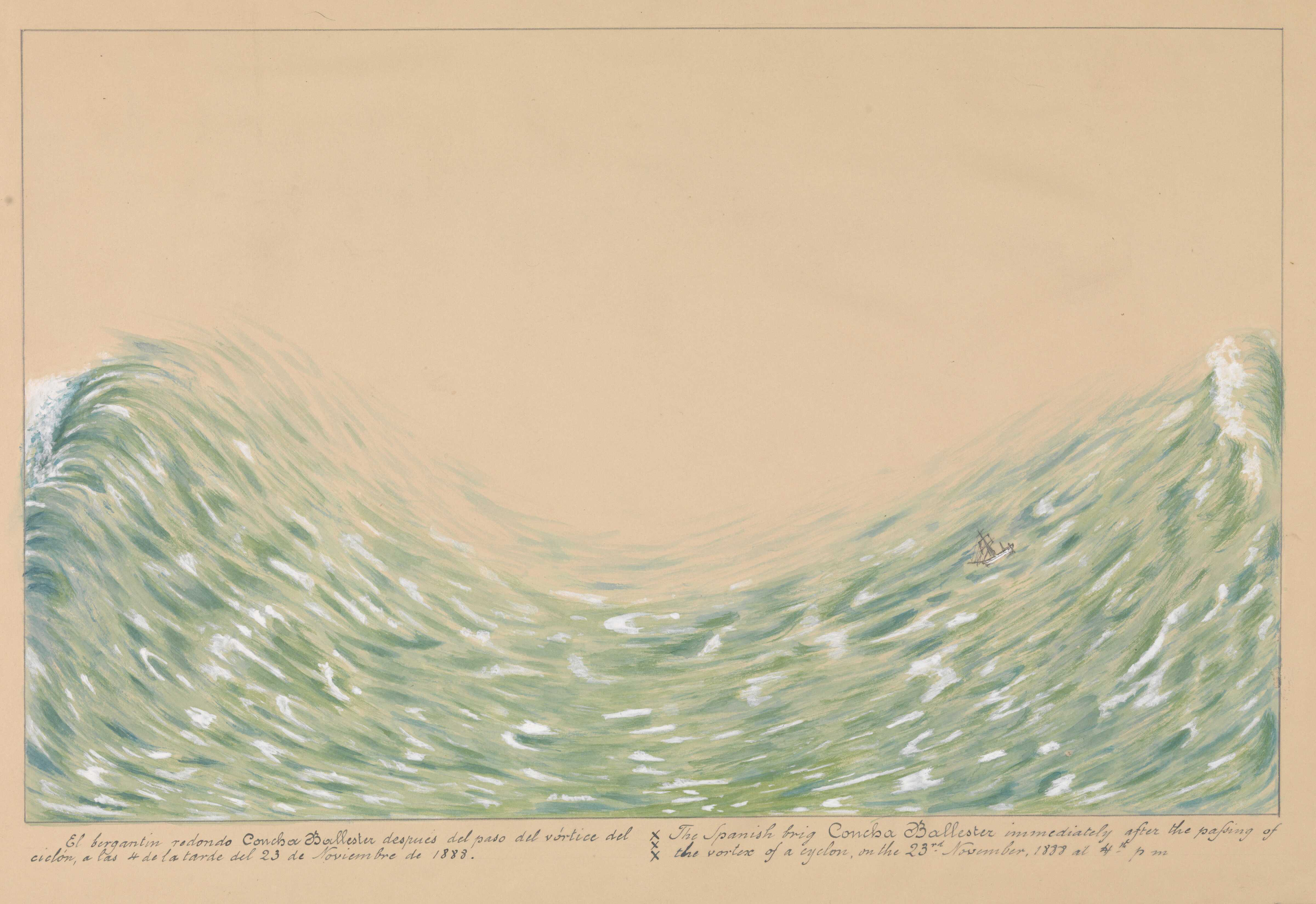 The Spanish brig Concha Ballester immediately after the passing of the vortex of a cyclon, on the 23rd November, 1888 at 4 H pm Heightened with white. The Spanish brig Concha Ballester immediately after the passing of the vortex of a cyclon, on the 23rd November, 1888 at 4 H pm